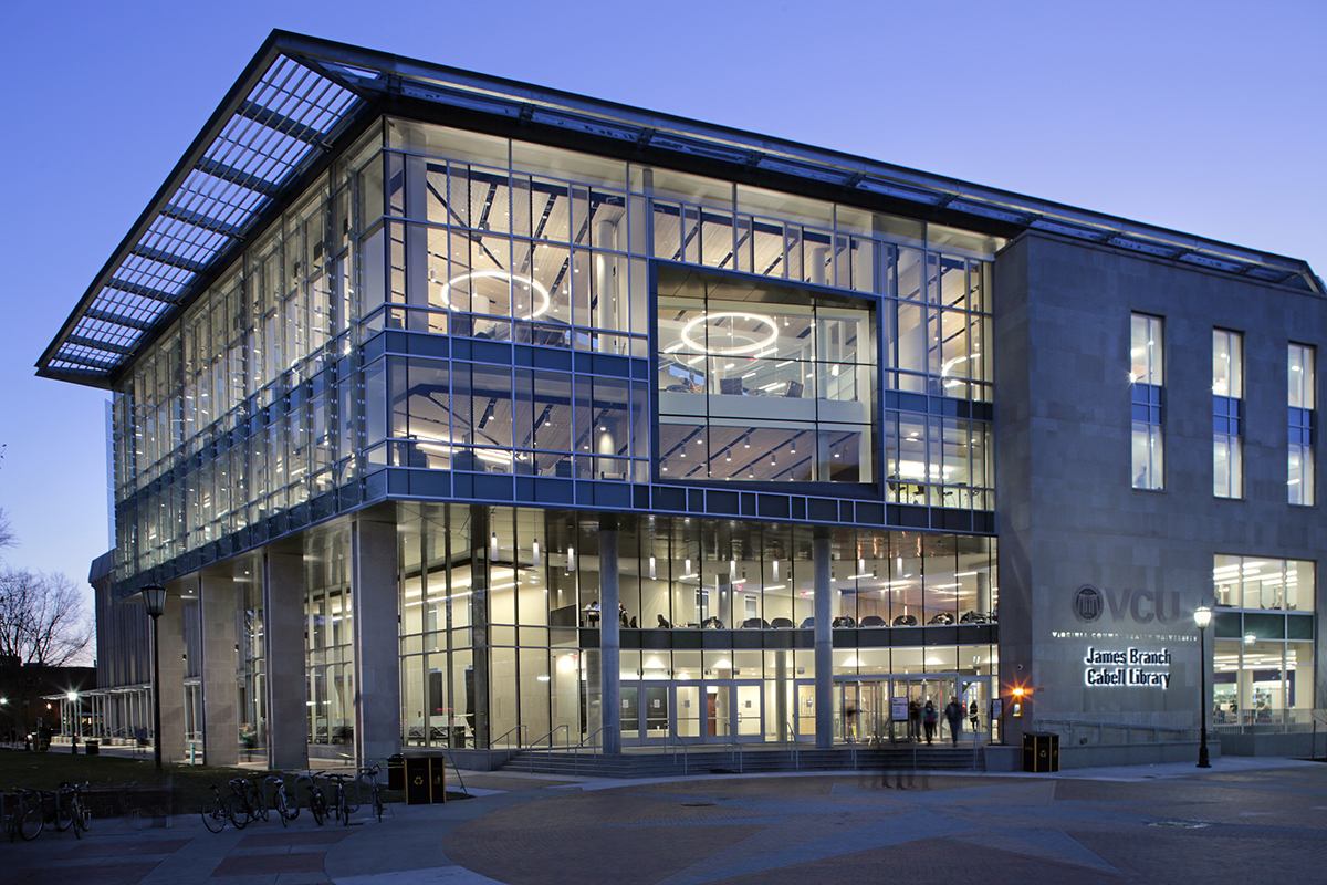 "Library at Dusk." James Branch Cabell Library on the Monroe Park Campus of Virginia Commonwealth University, Richmond, Va. Photograph by Jay Paul.